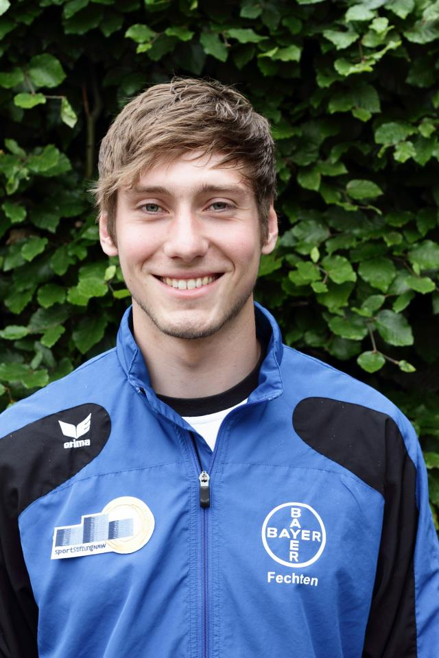 Max Hartung 2012